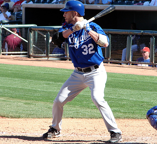 Description Shane Costa DateSourceI created this work entirely by myself.AuthorAdam Penale (talk) 22:40, 1 February 2009 . . WWEYANKS52 . . 550×503 (226 KB) Shane Costa